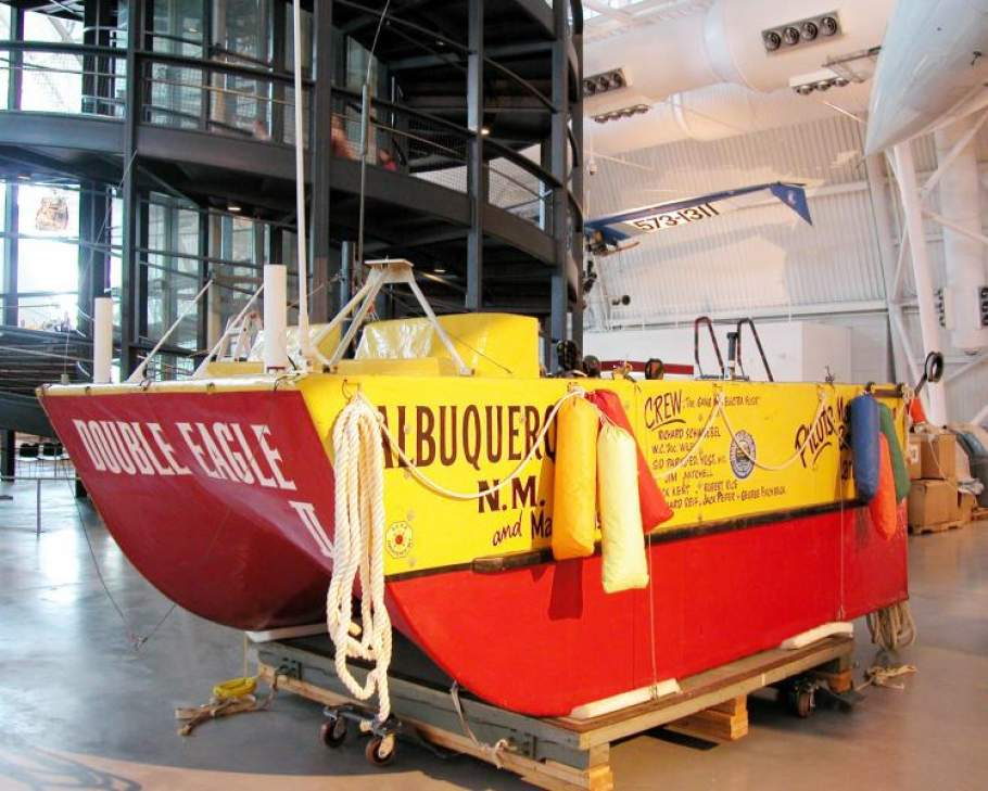 in 1978, Ben Abruzzo, Maxie Anderson, and Larry Newman took off from Presque Isle, Maine in the gas balloon Double Eagle II in an attempt to cross the Atlantic. The successful crossing took 137 hours, 6 minutes and covered 5,021 kilometers (3,120 miles) landing in a wheat field near Miserey, France.